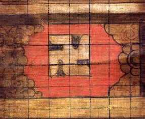 Imagination of the concept Yungdrung